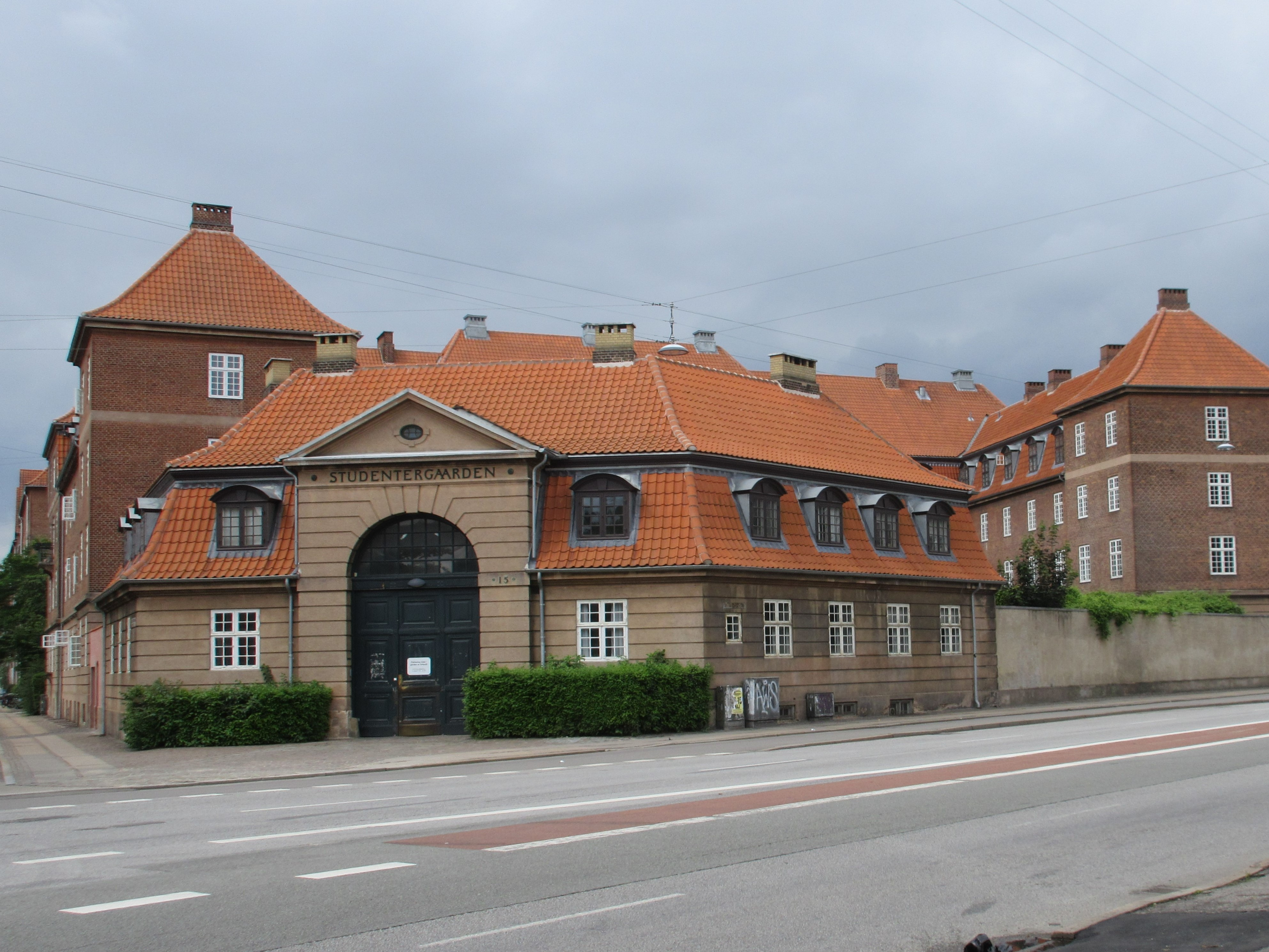 Studentergården at Tagensvej in Copenhagen, Denmark